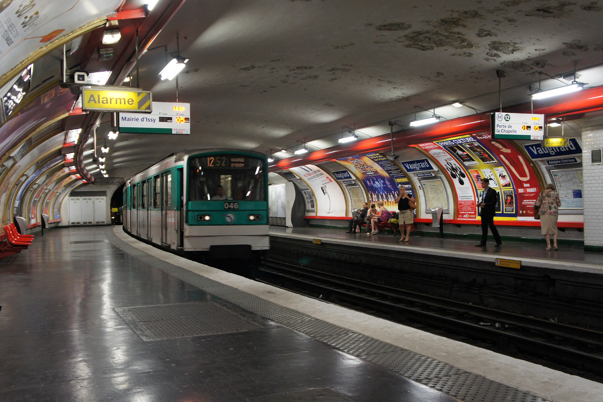 Paris Metro Ligne 12, Vaugirard station